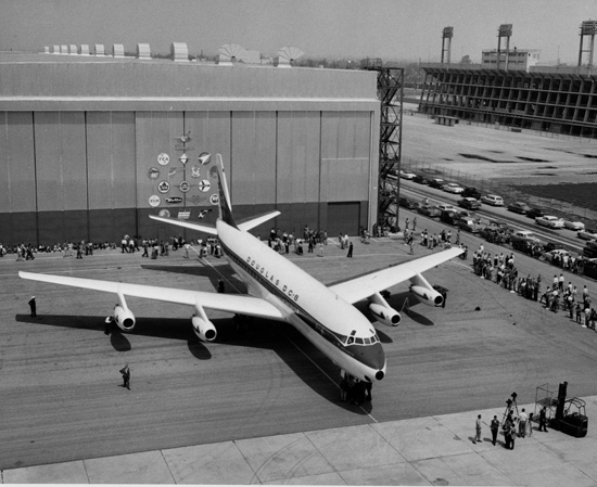 Catalog #: 00065967 Manufacturer: Douglas Designation: DC-8 Official Nickname: Notes: Repository: San Diego Air and Space Museum Archive